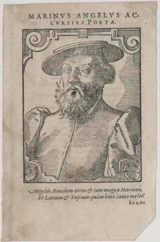 Mariangelo Accorso (Accursius, ca. 1489/90–1544/46), Italian humanist